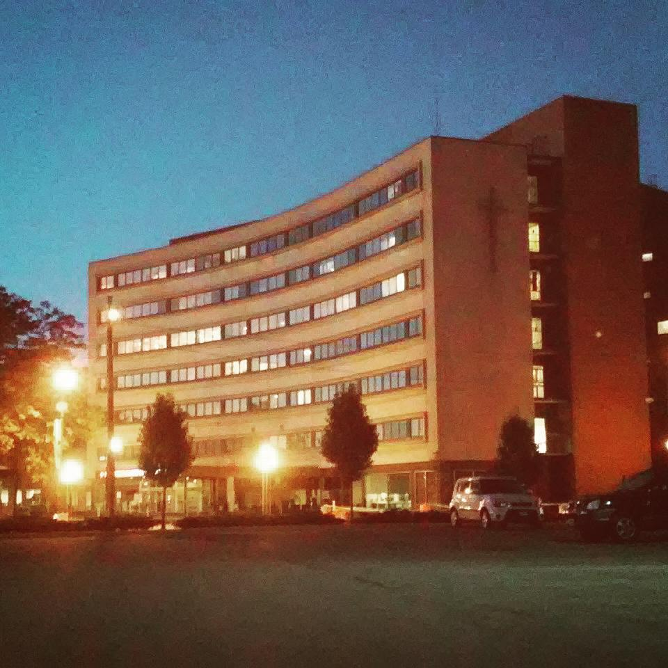 Photo of St. Vincent's